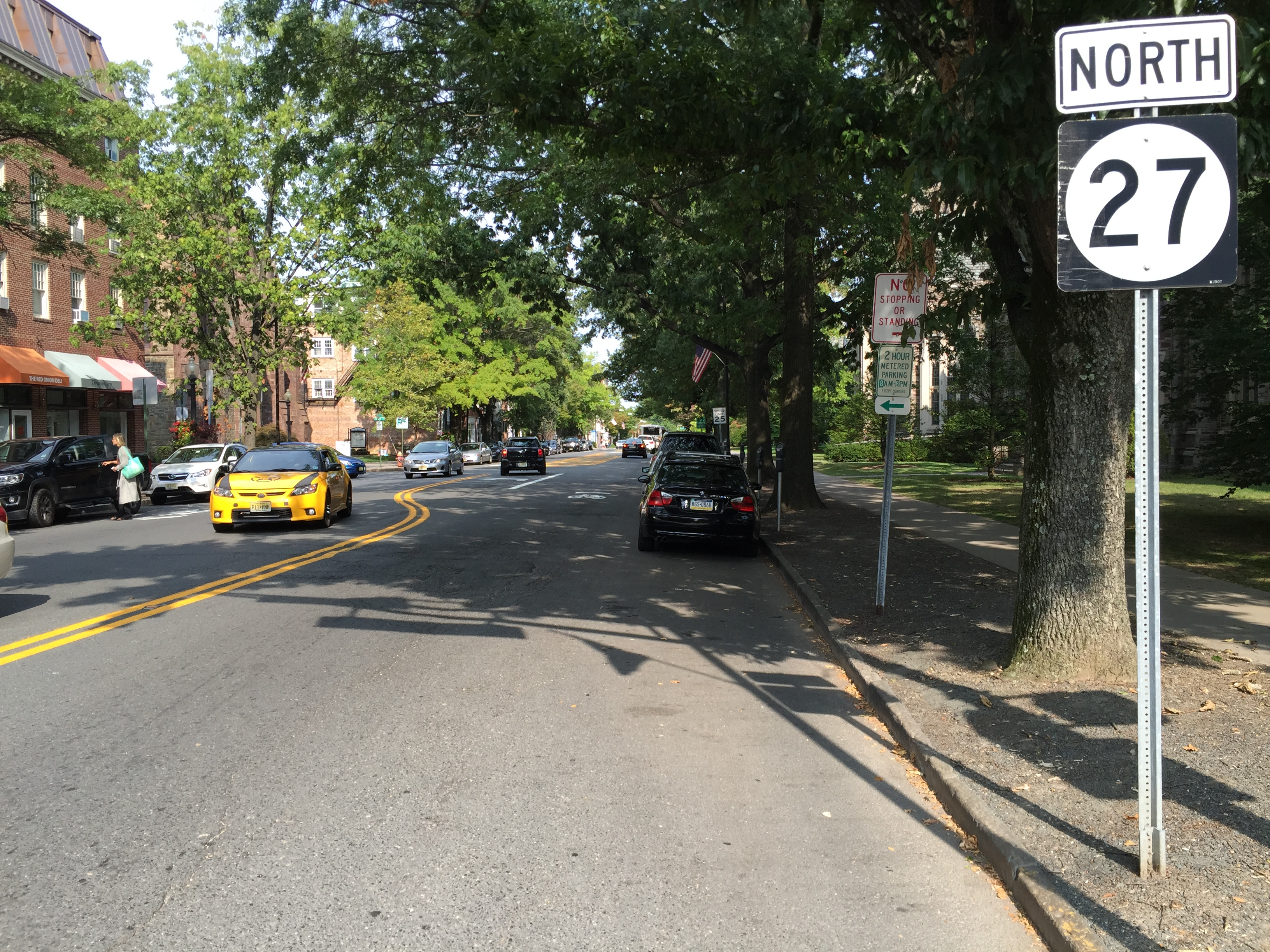 View north along New Jersey State Route 27 (Nassau Street) at University Place and Bank Street in Princeton, Mercer County, New Jersey